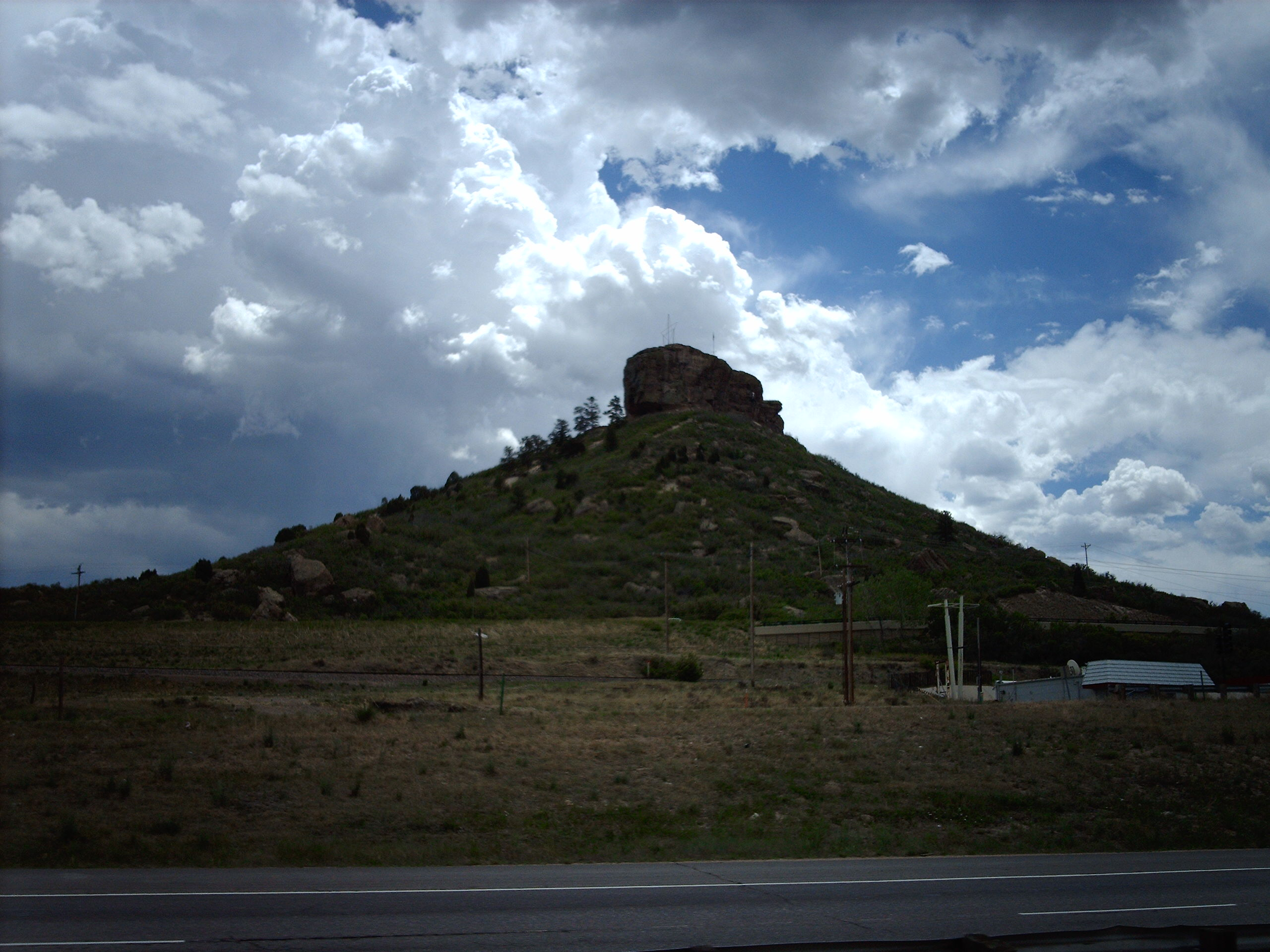 Castle Rock, Colorado from I-25. Taken by me.